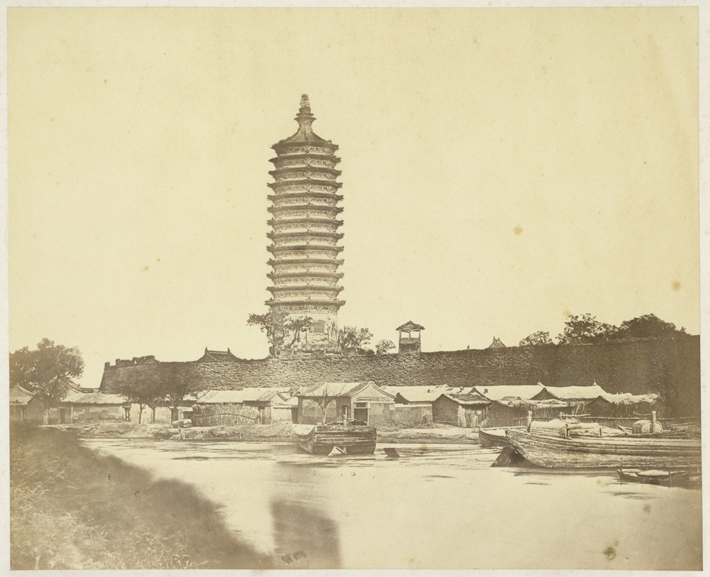 Randeng Pagoda, Tongzhou District. Thought to be the ealiest photograph taken in Tongzhou[1].